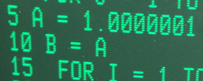 Old raster-scan display sample for the pixel view